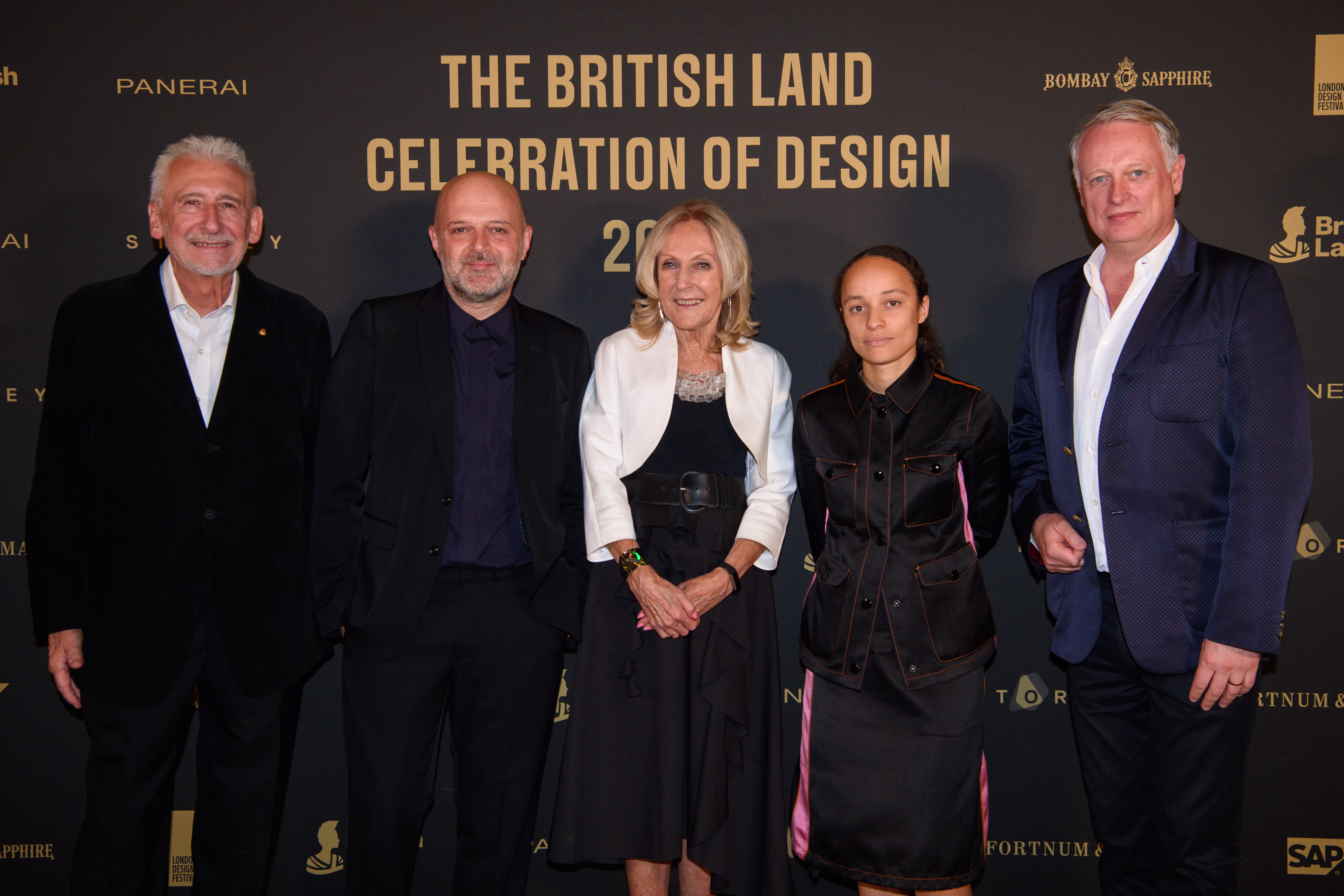 Medal Dinner